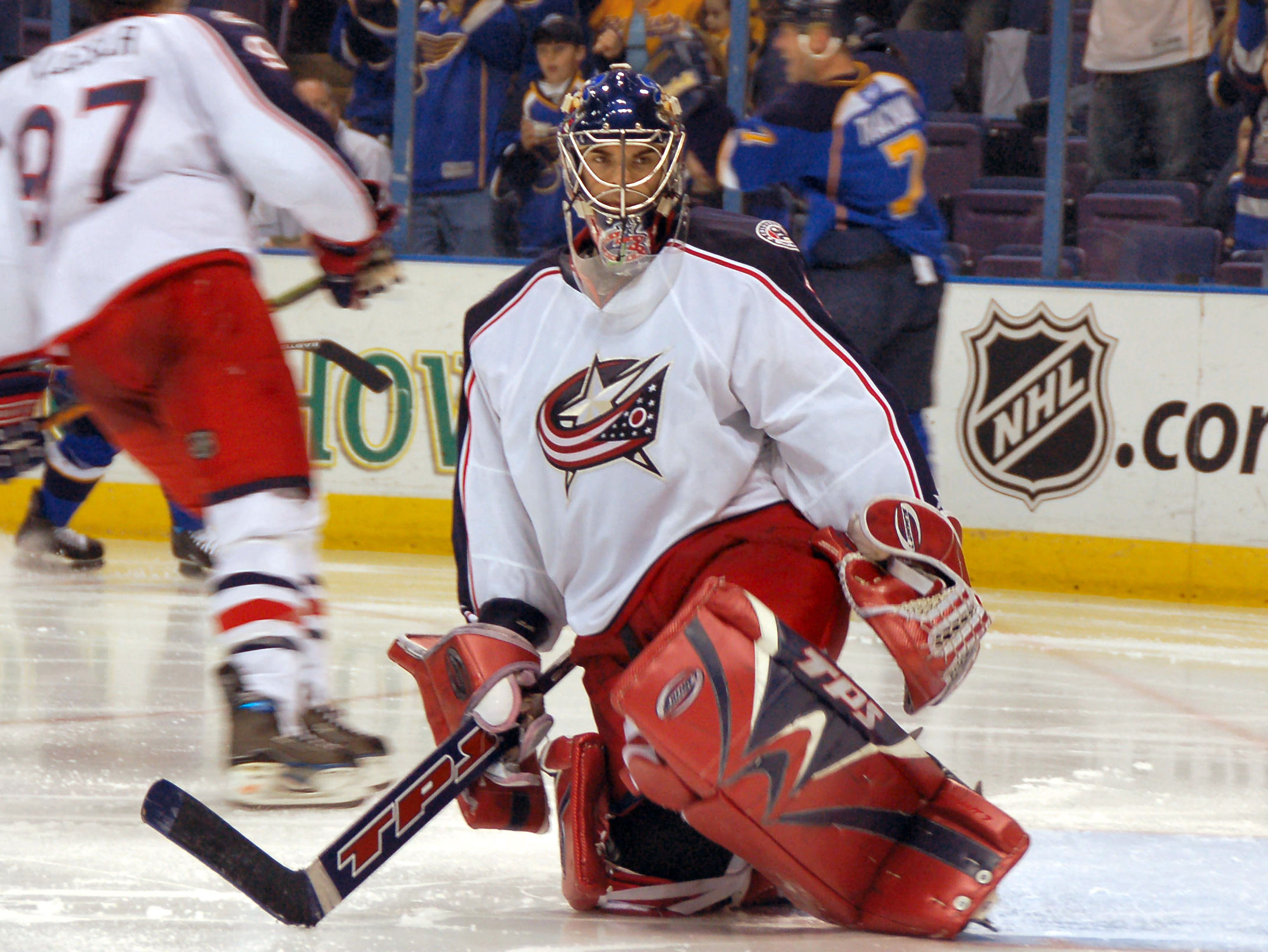 Keith Tkachuk (in the background) just scored his 499th NHL goal against goaltender Pascal Leclaire, St. Louis Blues vs. Columbus Blue Jackets, April 5th, 2008. On the left Rostislav Klesla (CBJ)